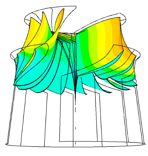 Pressure coefficient on the Francis runner blade.